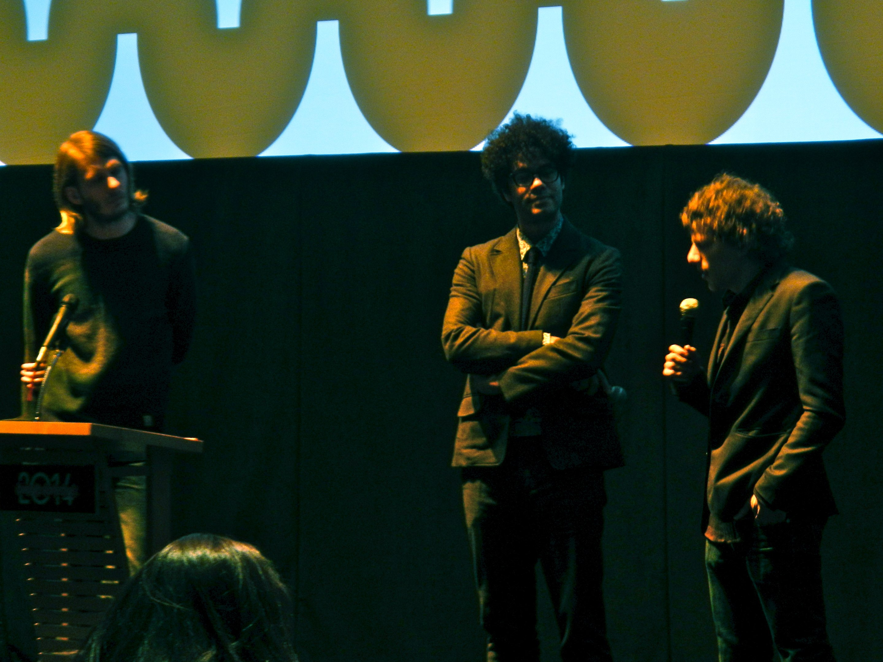 "The Double" at Sundance 2014